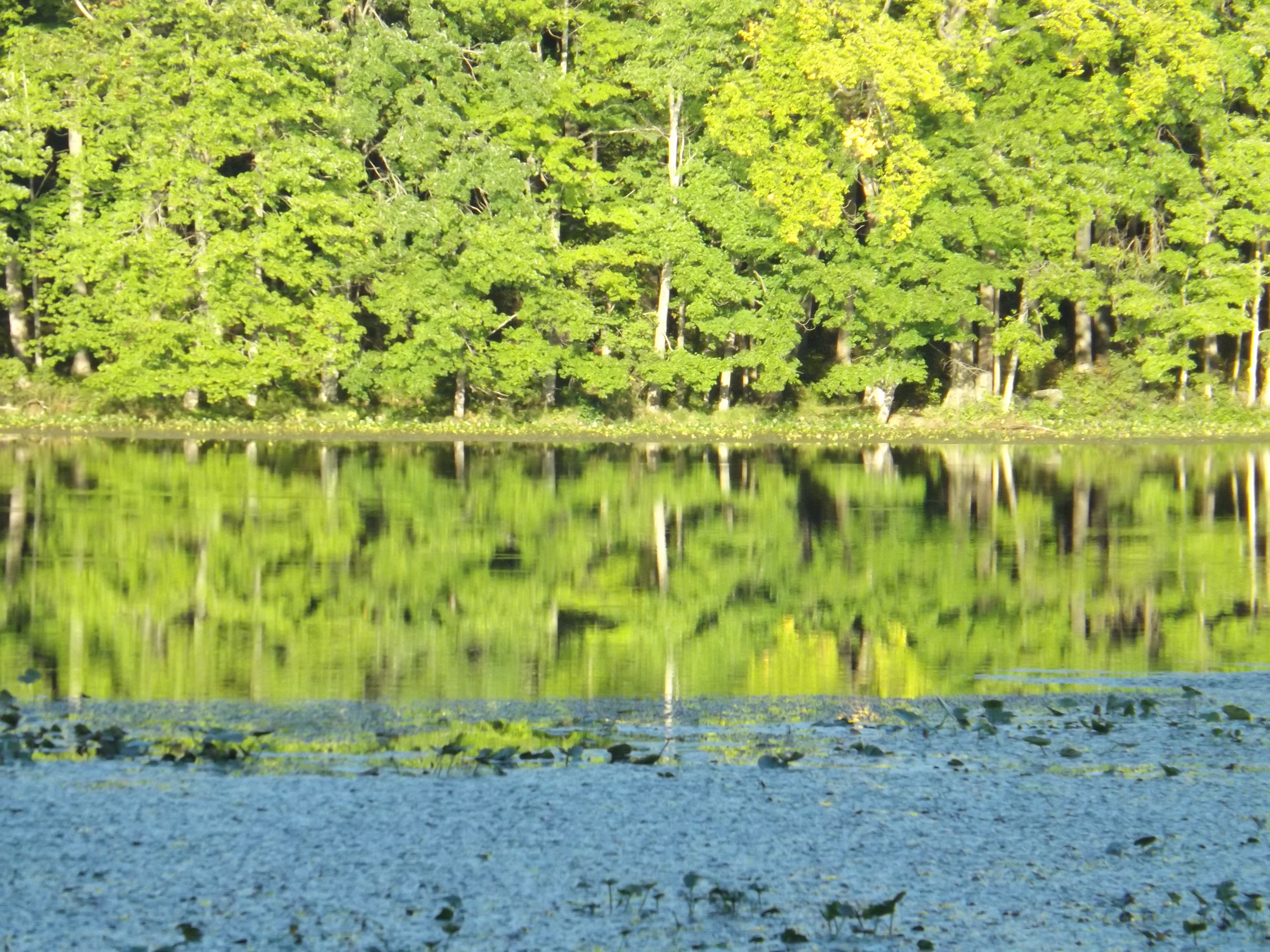 Personal photo taken of light reflecting off Lake Towhee